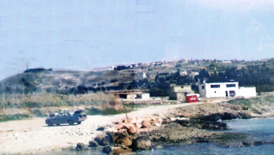 Al-Ansariyyah , Lebanon - view from the west.